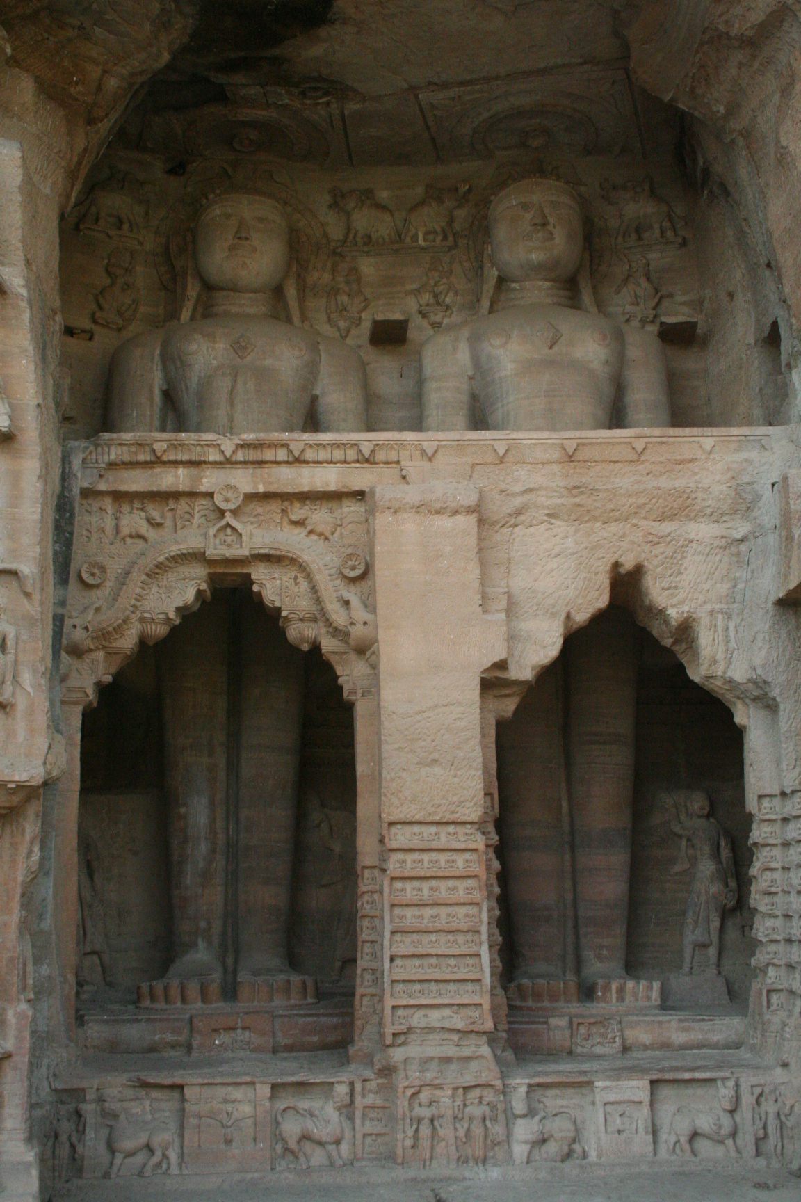 Jain statues carved out of rock in the Gwalior Fort near the Urwai Gate